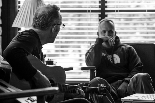 Darden Smith Writes a Song with a Soldier.